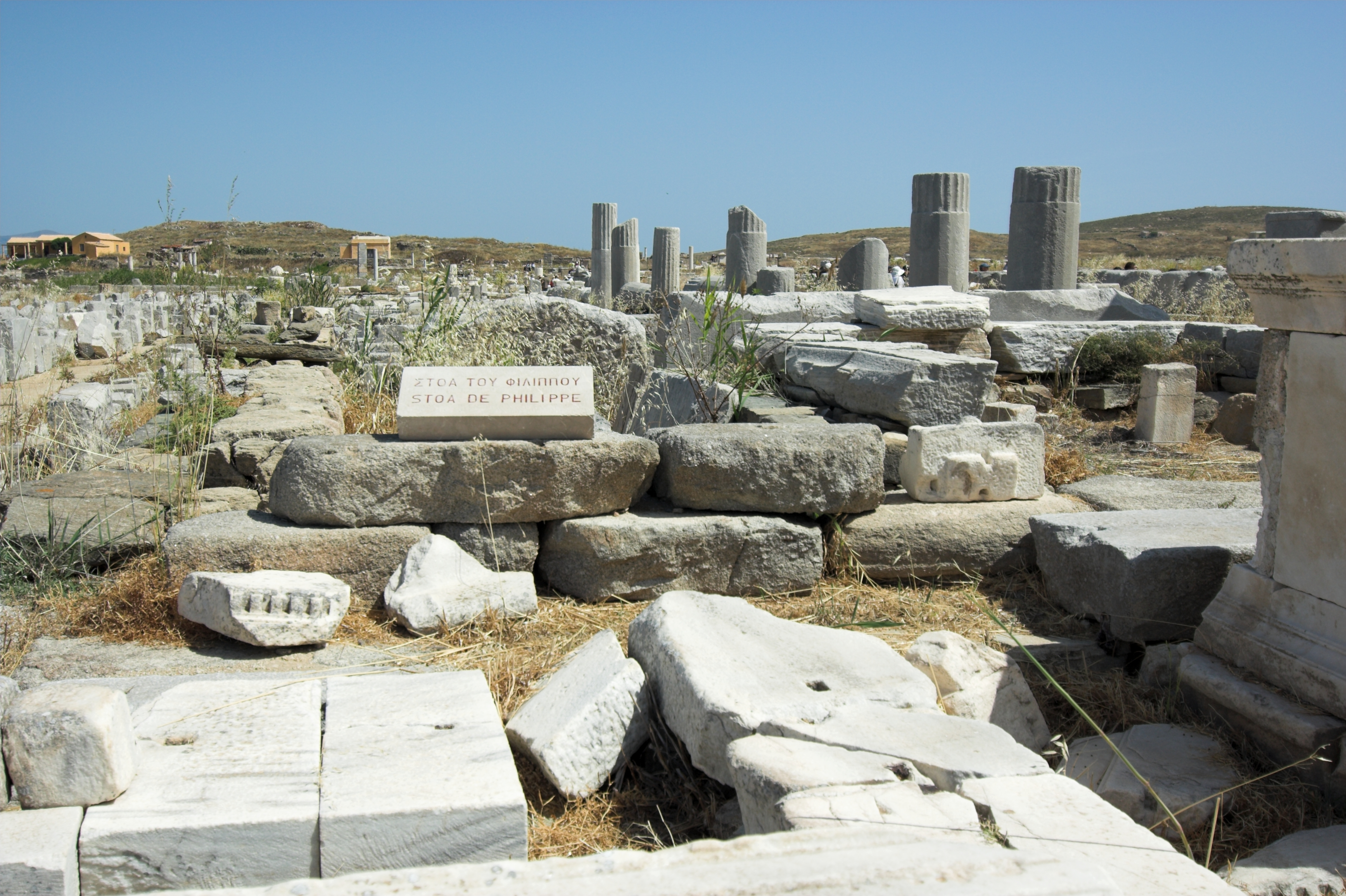 Stoa of Philip on Delos. Around 210 BC, it was built by Philip V. (Macedonian).